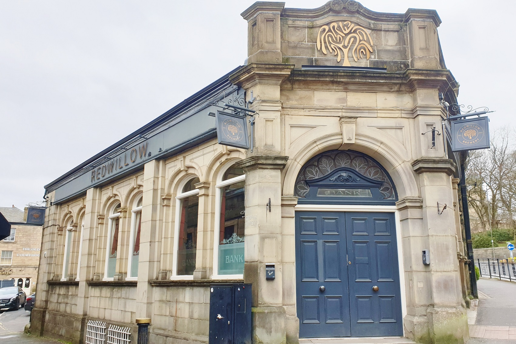 Red Willow bar at Buxton